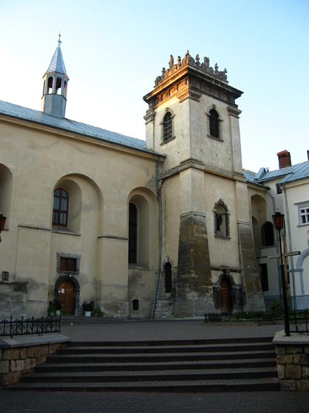 Church and convent of Benedictines, Lviv